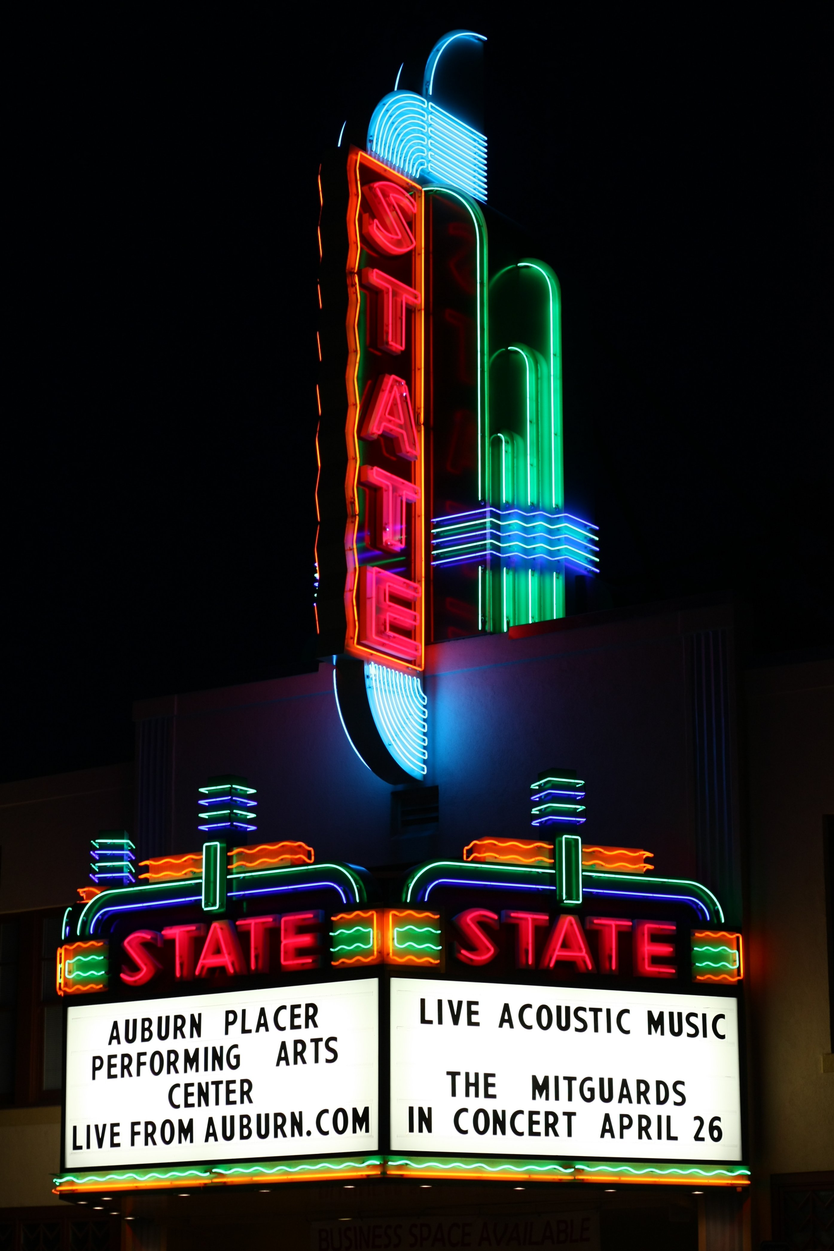 The neon marquee sign of the 1937 State Theater in Auburn, California; the five large letters at the top light in a sequence, "S", "ST", ..., "STATE", off. The sign was rebuilt by the Young Electric Sign Company in 2008. A 1942 photograph of the original sign has been posted to the website of the Auburn Placer Performing Arts Center (History - Auburn Placer Performing Arts Center, accessed 2010-12-08).